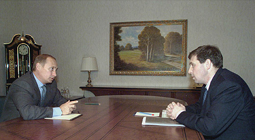 SOCHI. With Economic Advisor Andrei Illarionov.